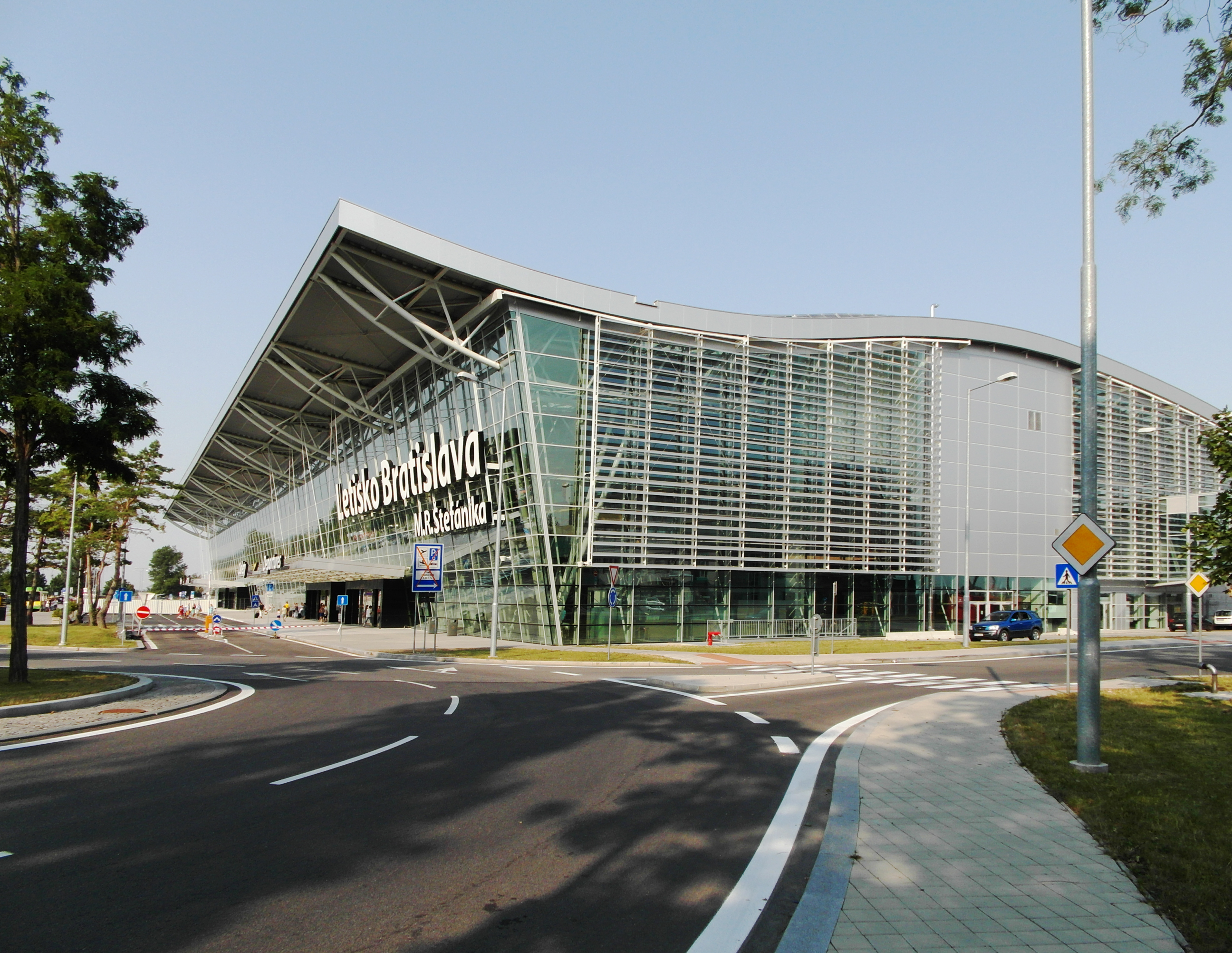 Bratislava Airport new TerminalSlovenčina: Bratislavský letiskový terminál